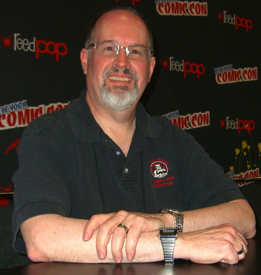 Novelist Timothy Zahn on Day 2 of the 2012 New York Comic Con, Friday October 12, 2012 at the Jacob K. Javits Convention Center in Manhattan. This photo was created by Luigi Novi. It is not in the public domain, and use of this file outside of the licensing terms is a copyright violation.